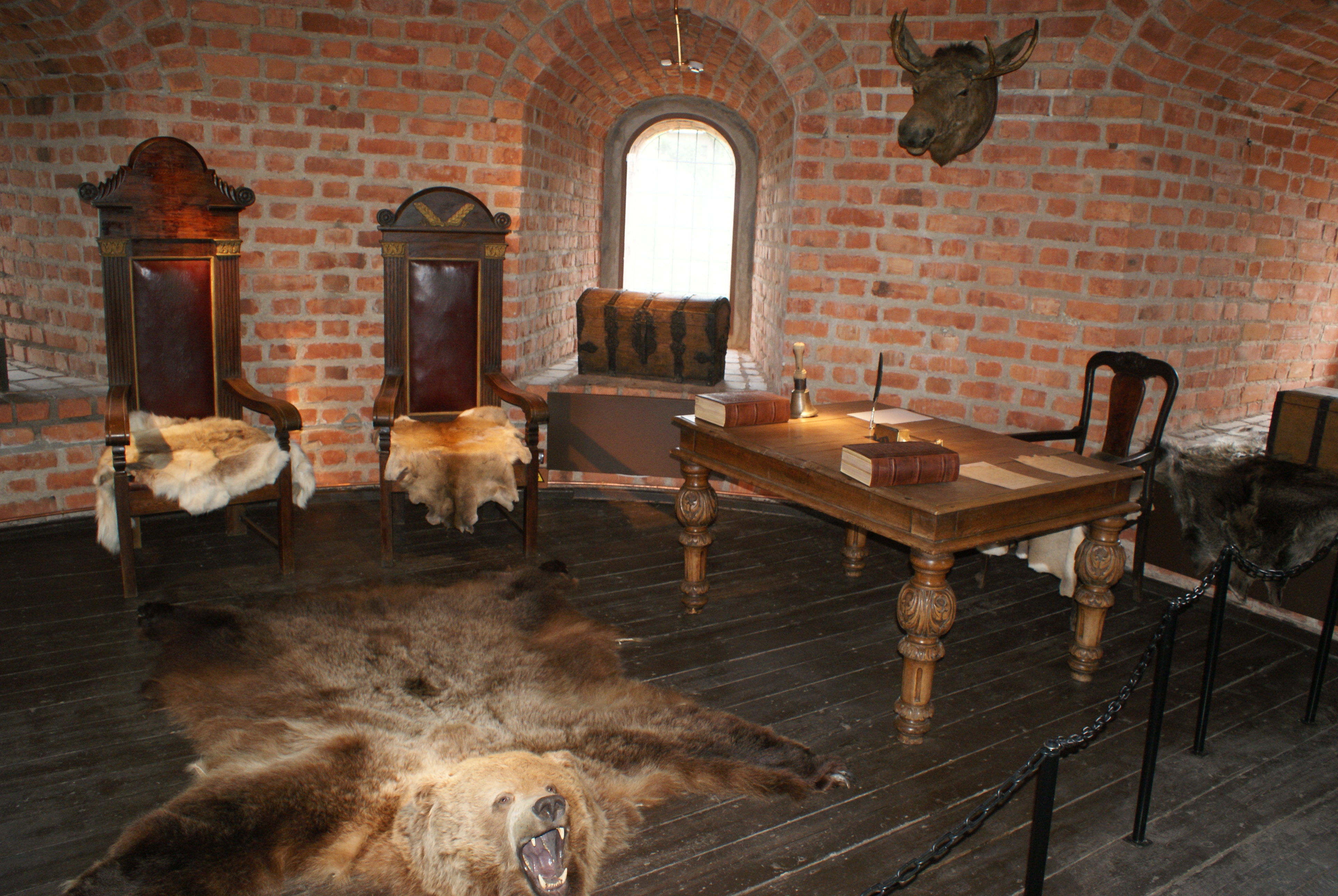 Kaunas Castle